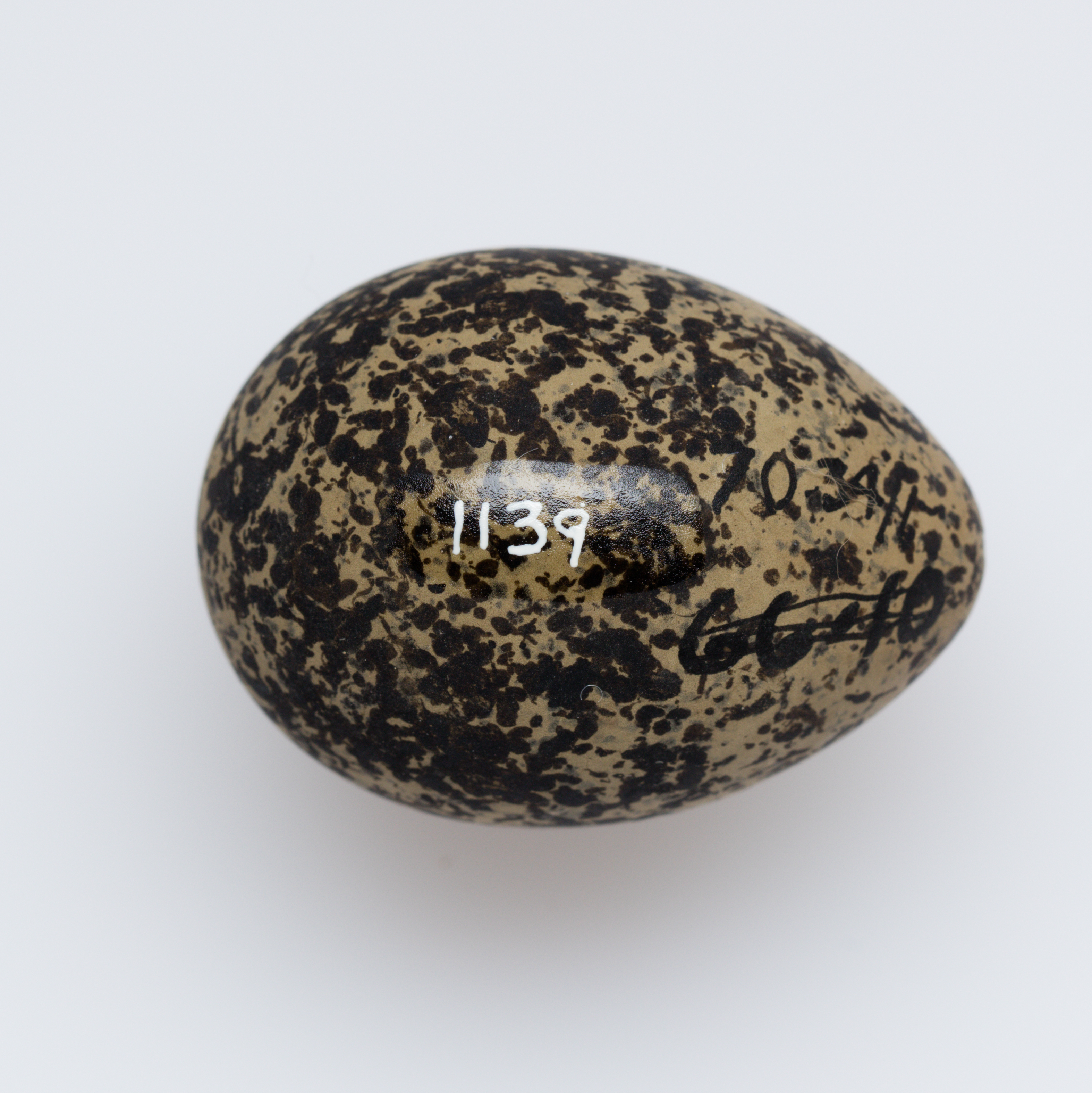 Double-banded plover (Charadrius bicinctus) egg from the collection of Auckland Museum